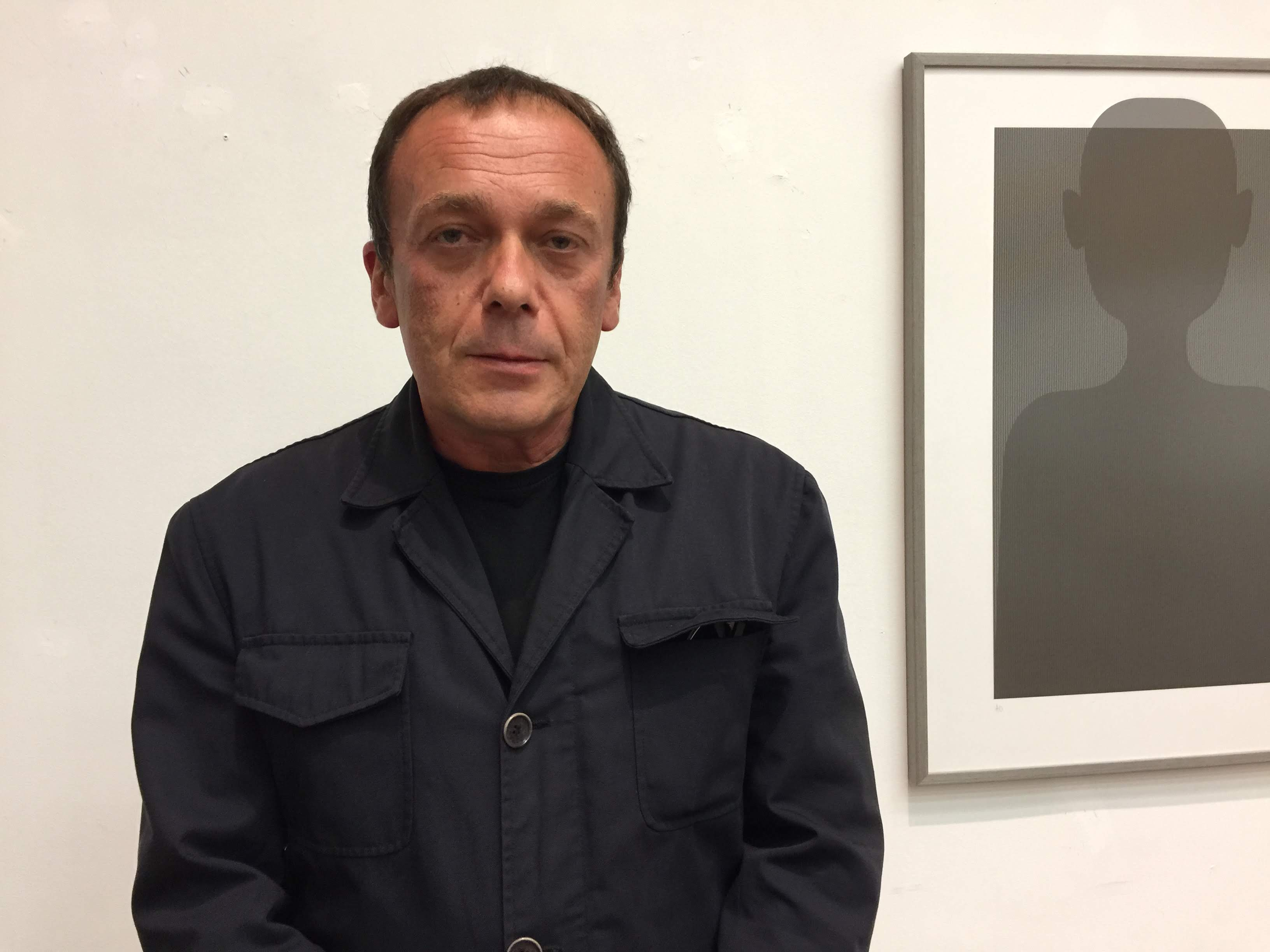 Gabriel Glid a Serbian sculptor from Belgrade